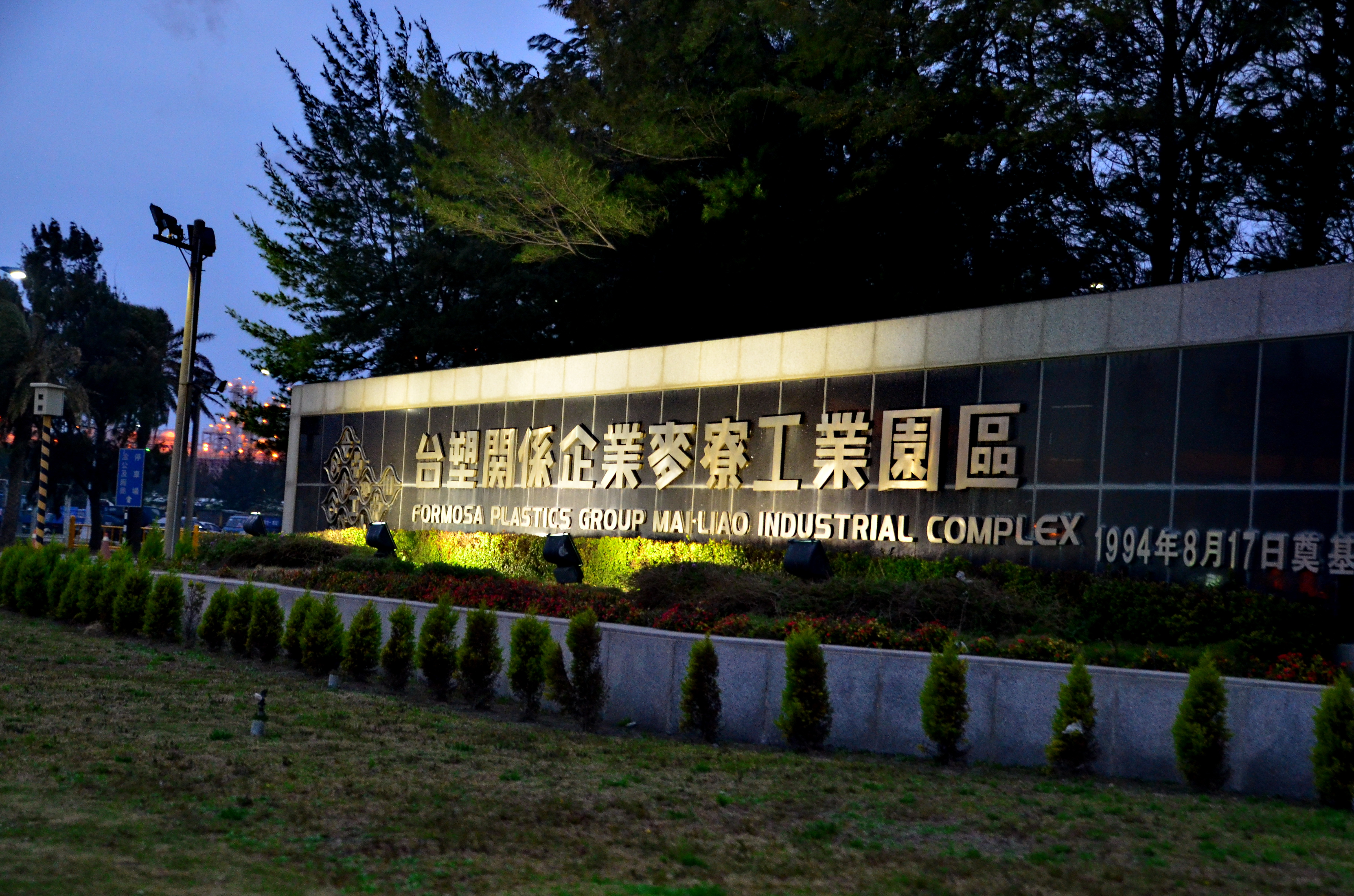 Formosa Plastics Group Mail-Liao Industrial Complex, Yunlin, Taiwan.